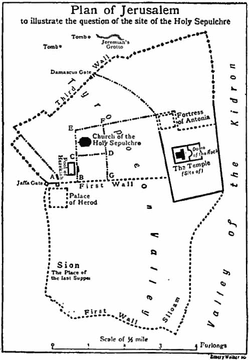 Plan of Jerusalem to illustrate the question of the site of the Holy Sepulchre.